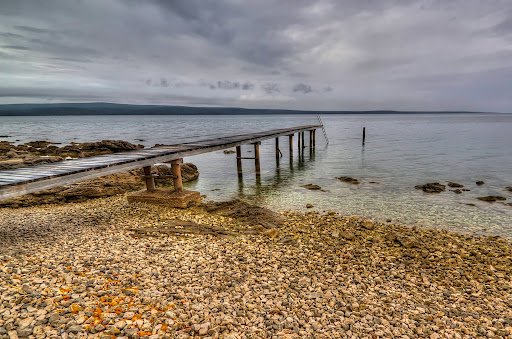 Nerezine